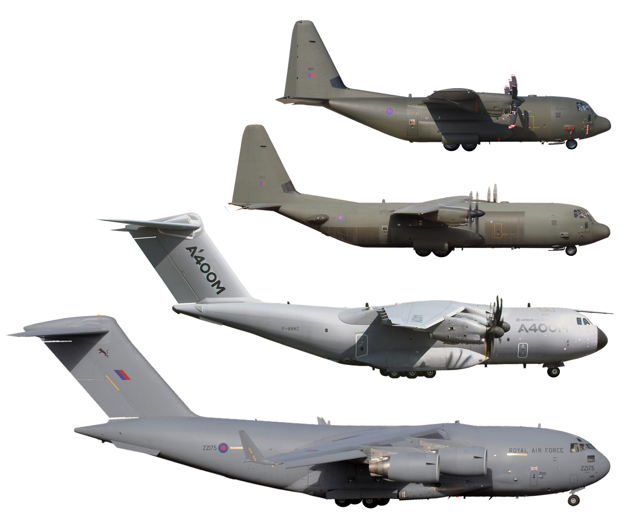 Size comparison of military transport aircraft. Top down: Lockheed Martin C-130J Super Hercules, C-130J-30 Super Hercules (extended), Airbus A400M Atlas, Boeing C-17 Globemaster III. Please note that the image is composed of individual photographs and there are certain changes in the perspective. This should still give a rough impression of the proportions.